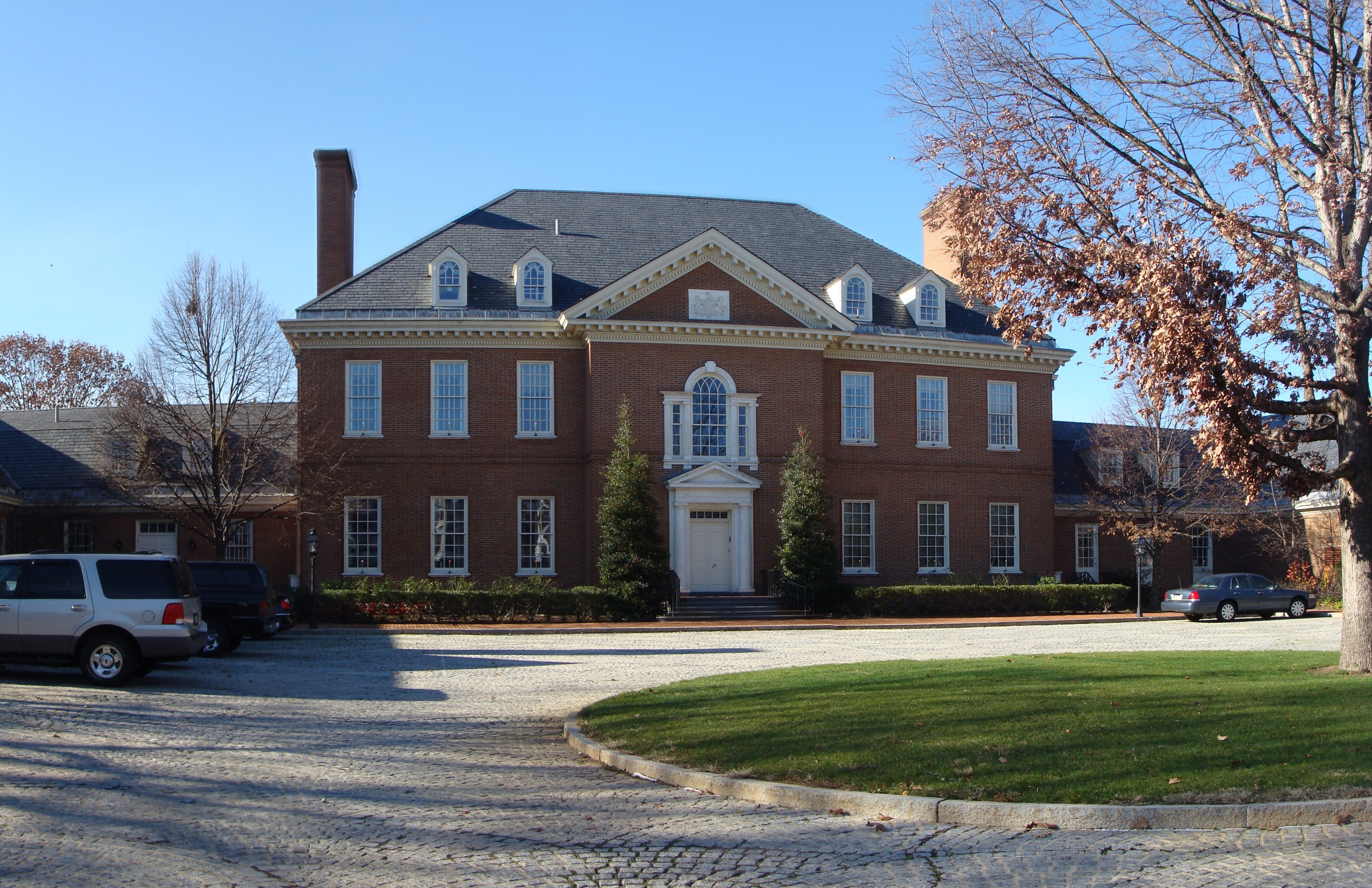 The Governor's Residence in Harrisburg, Pennsylvania is the official residence of the Governor of Pennsylvania. Originally four vertical photos.